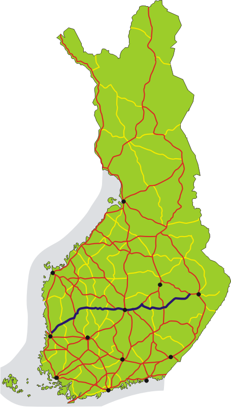 Map of the main road (highway) 23 in Finland, shown in dark blue. The other 1st class main roads (numbers 1–29) are red, 2nd class main roads (numbers 40–98) yellow. Black dots show the 12 biggest urban areas.